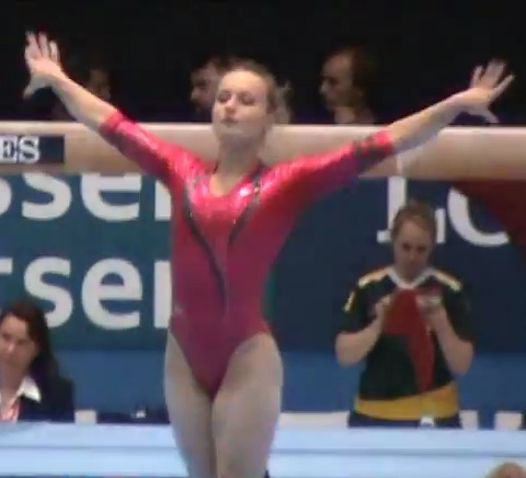 Angelina KYSLA (UKR) - Floor '13 World championships in Antwerp (BEL) - Qualifications Captured by Almosthappy! 13.100 (D: 5.4 / E: 7.7) Qualifs rank : 37th